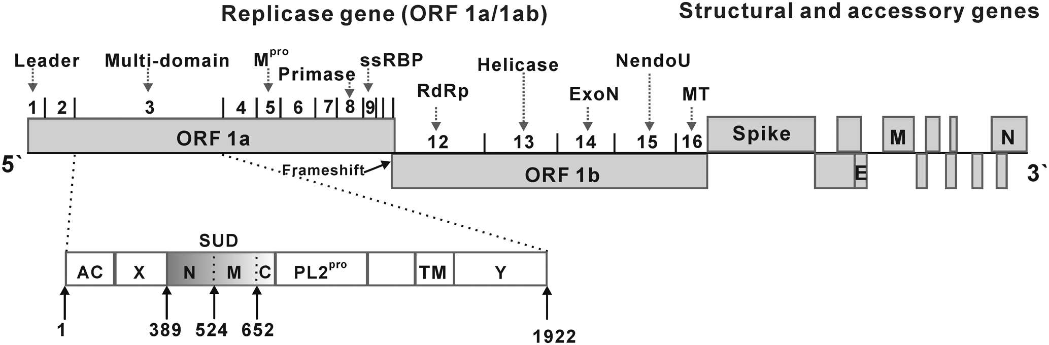 Genome organisation of SARS-CoV. Nsp3 and full-length SUD with subdomains N, M, and C are highlighted. Mpro, main (or 3CL) protease; ssRBP, single-stranded RNA-binding protein; RdRp, RNA-dependent RNA polymerase; ExoN, exonuclease; NendoU, uridine-specific endoribonuclease; MT, methyltransferase; Spike, spike protein; E, envelope protein; M, membrane (matrix) protein; N, nucleocapsid protein; Ac, acidic domain; X, X-domain; SUD, SARS-unique domain; PL2pro, papain-like protease; TM, transmembrane region; Y, Y-domain.